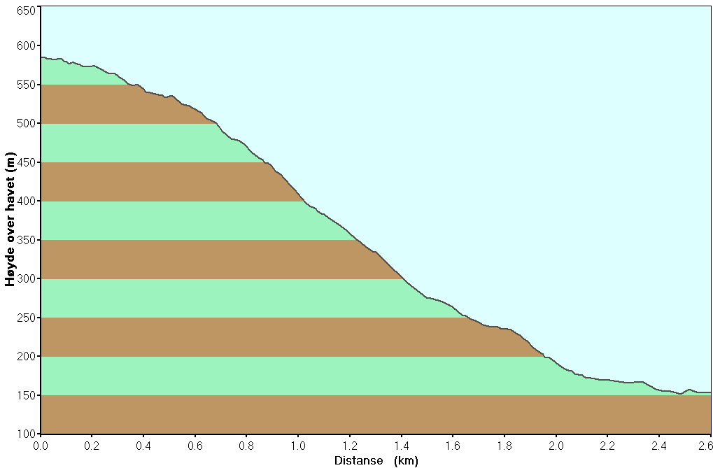 Height profile climbing the mountain Sæterfjellet, Brønnøy, Norway